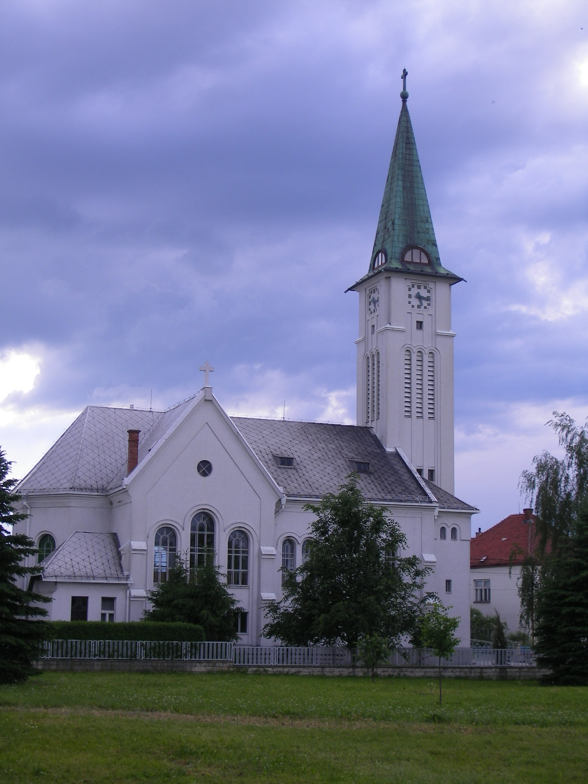 Turany - evangelic church